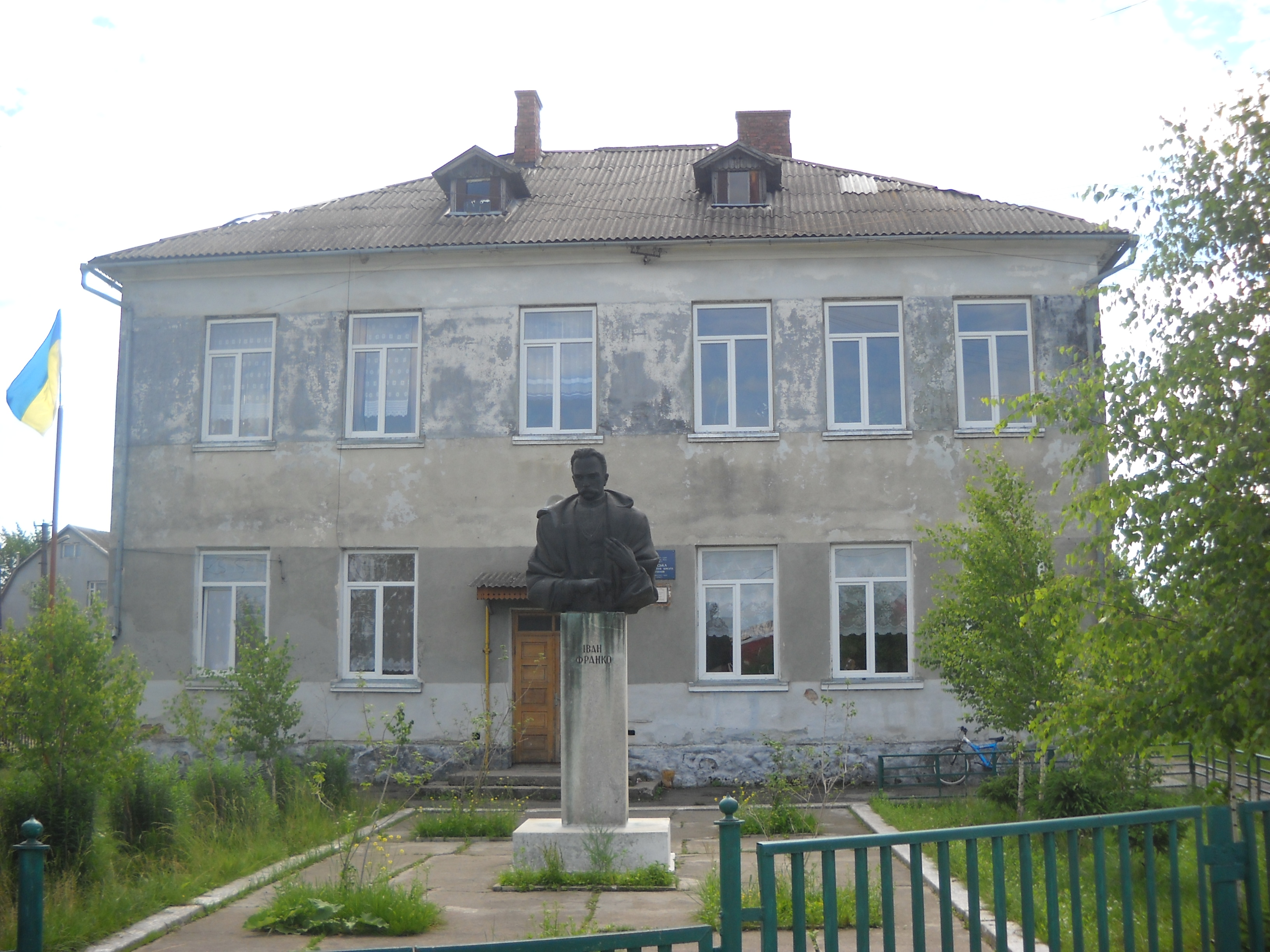 School in the village of Berezin